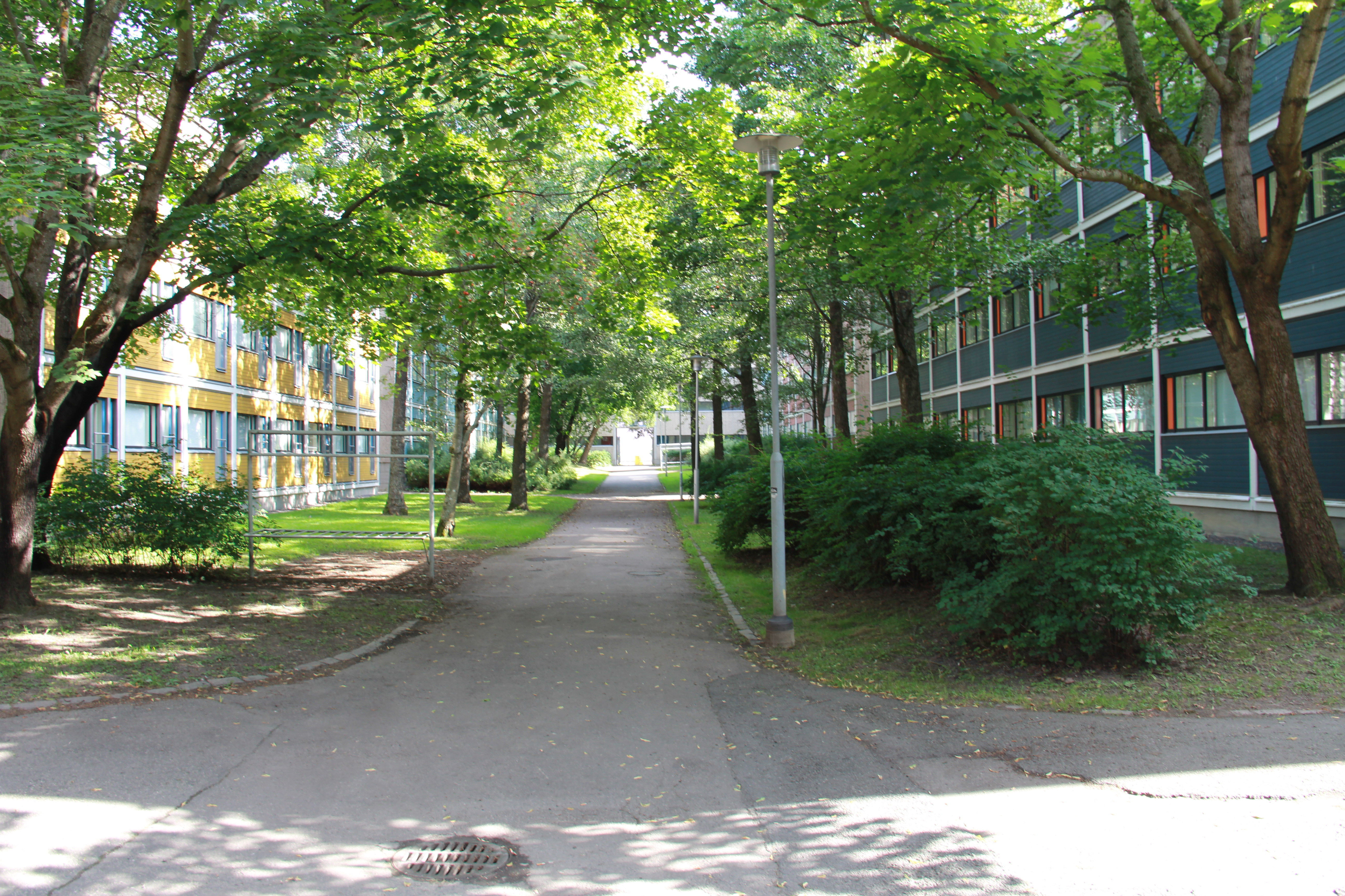 Turku Student Village, western part, Turku, Finland. Built in 1970's, architects Erkki Valovirta and Jan Söderlund.